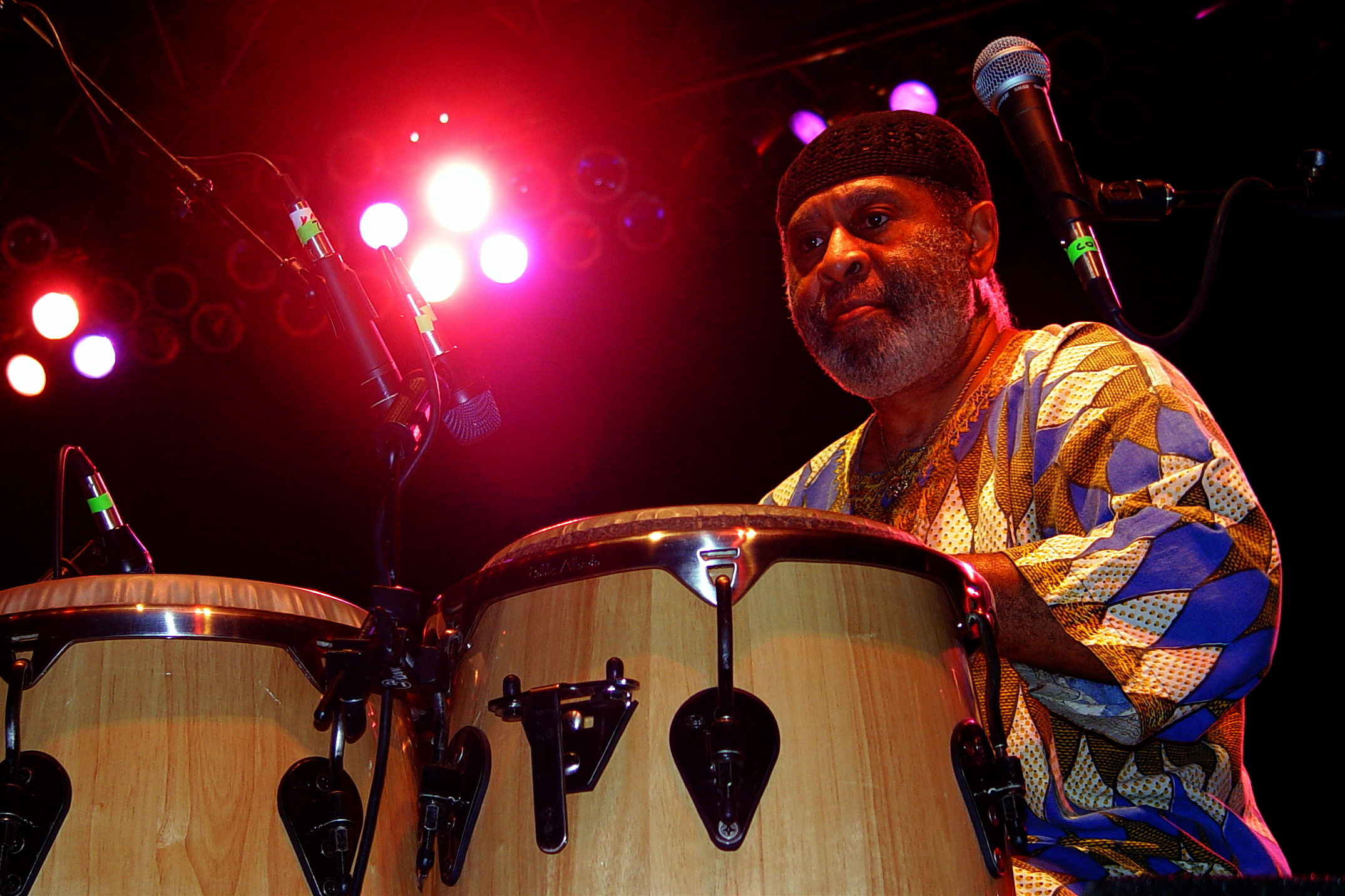 Percussionist Count M'Tubu from the Derek Trucks Band, 2007